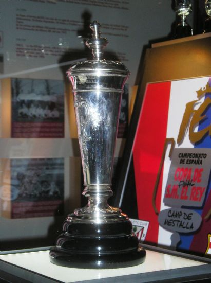 Copa coronacion de 1902